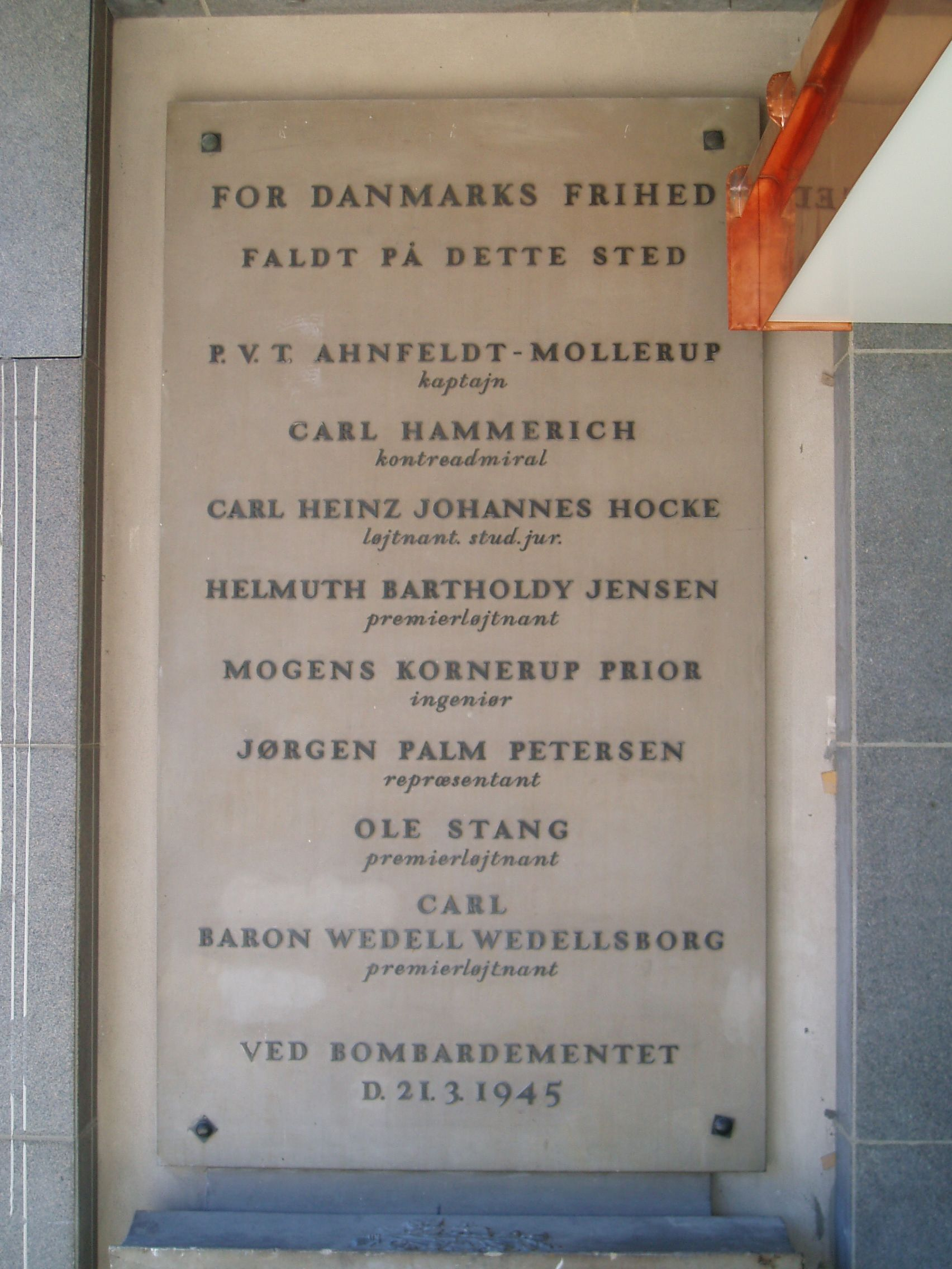 Memorial plaque on the Shell House's eastern facade in Copenhagen. "For Denmark's freedom fell on this place (...) at the bombardments the 21.3. 1945". The building was originally Danish headquarters for Shell but was seized by Gestapo during World War II.